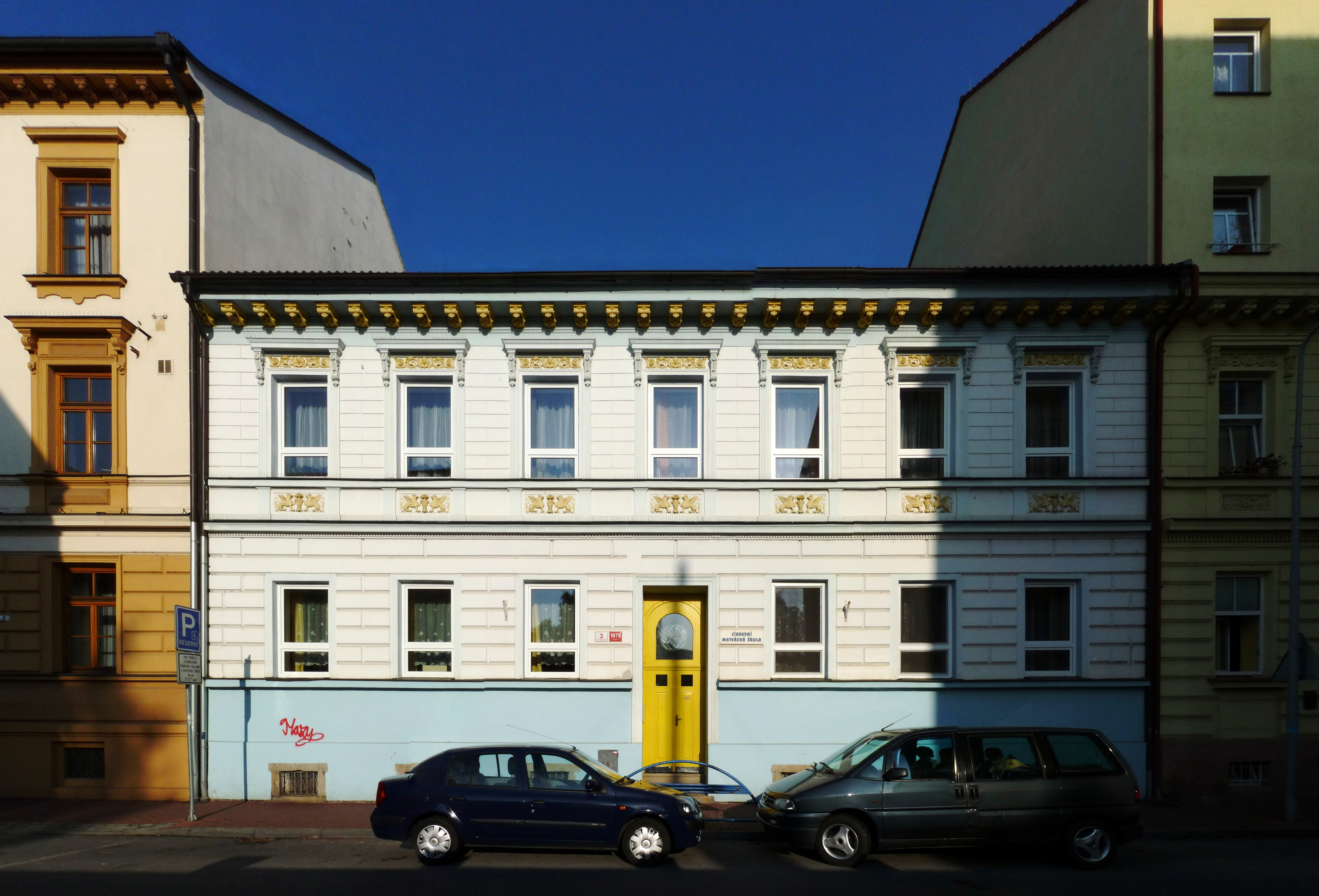 Church Kindergarten in Lipenská Street in the town of České Budějovice, South Bohemian Region, Czech Republic.